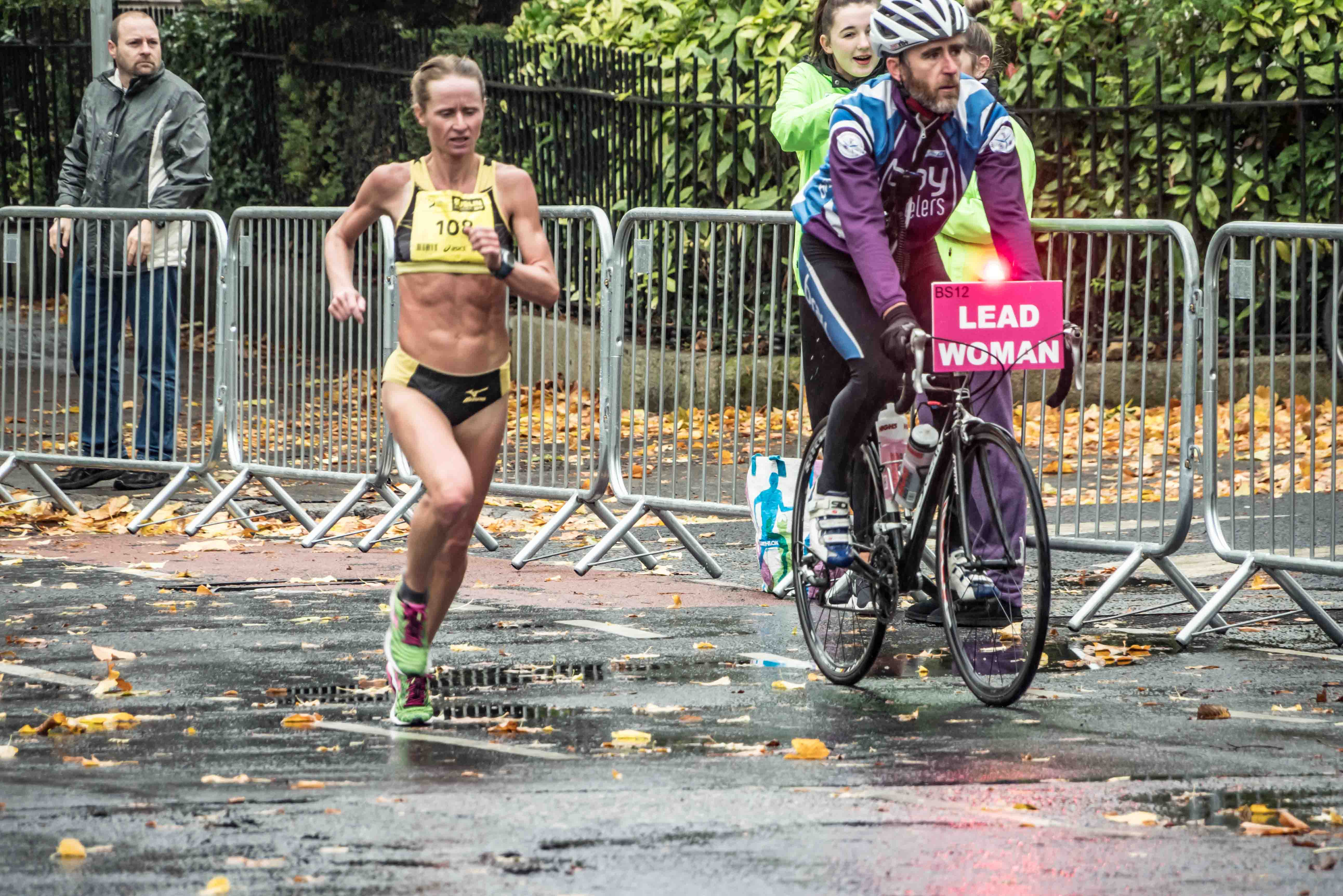 Samunnati (Nataliya) Lehonkova winner of the women in the Dublin Marathon in the year 2015.